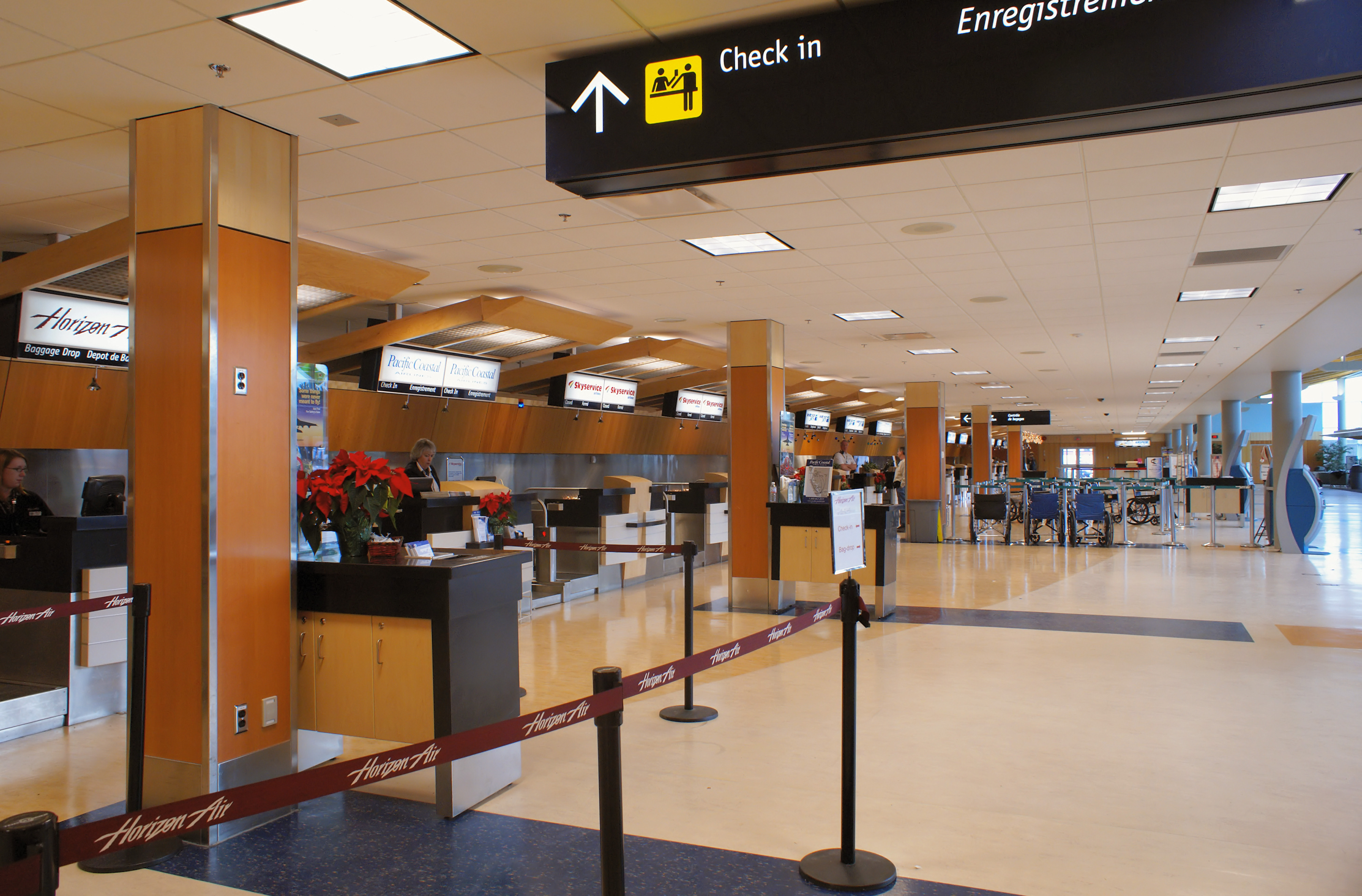 The Victoria International Airport Departures Terminal.